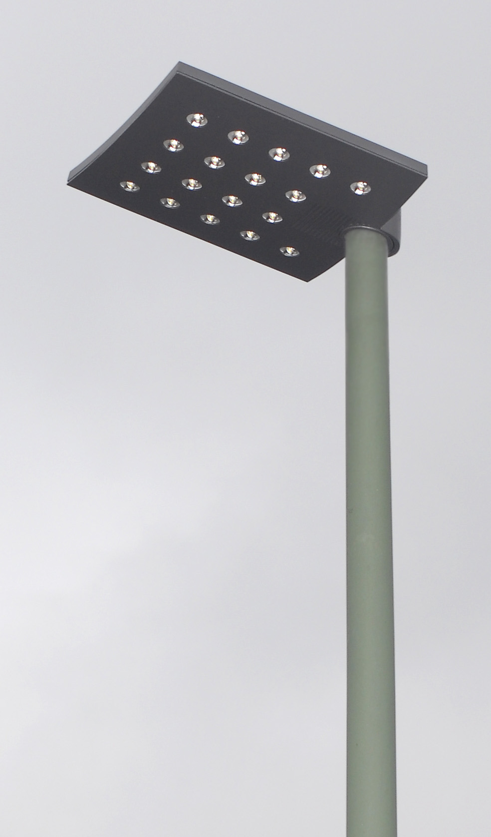 Streetlight with LED; LED application